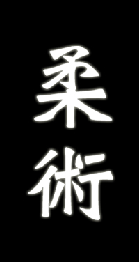 Kangibjj